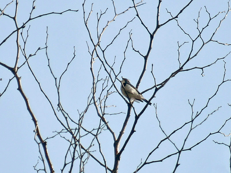 Ultramarine Flycatcher Ficedula superciliaris in Kullu District of Himachal Pradesh, India.